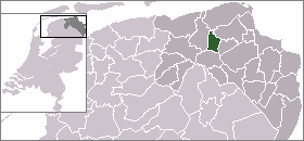 Locator map of Dutch municipalities in Groningen (LocatieBedum.png)